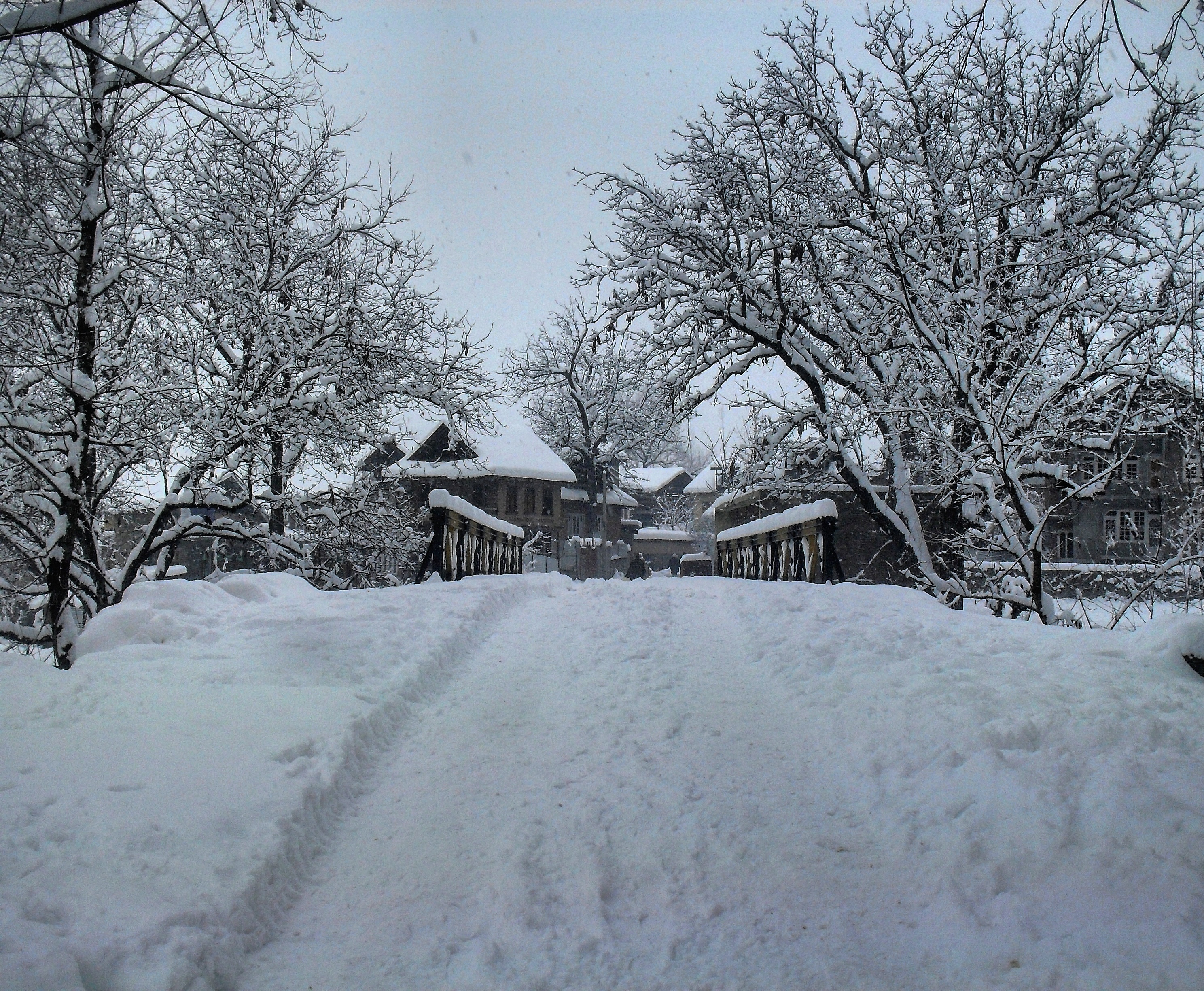 The view of Aragam in Winter